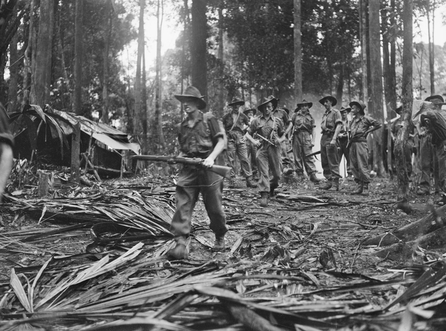 BALIKPAPAN, BORNEO. 20 JULY 1945. MEMBERS OF A PATROL FROM 2/3RD COMMANDO SQUADRON, 2/7TH CAVALRY (COMMANDO) REGIMENT, LEAVING THE HEADQUARTERS AREA OF A TROOP ON A PATROL TO COVER THE TRACK LEADING WEST TOWARDS VASEY HIGHWAY AND PASSING THROUGH THE OLD JAPANESE HQ AREA. IDENTIFIED PERSONNEL ARE:- TROOPER (TPR) W. G. RAY (1); TPR R. MCMAHON (2); TPR E. S. KEAST (3); CORPORAL A. H. RADLEY (4); TPR C. R. WOODS (5); LIEUTENANT D. L. CAREW-REID (6); TPR D. C. WILLIAMS (7); TPR L. A. BOOTH (8).